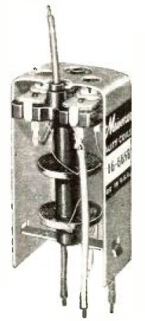 Drawing of an IF (intermediate frequency) transformer with the front surface of the shield can cut away to show the transformer itself. An IF transformer is a resonant transformer used as a bandpass filter in the intermediate frequency section of a superheterodyne receiver. It consists of two windings of fine wire (flat cylinders) around a tube containing an adjustable powdered iron slug core. Each winding has an adjustable mica capacitor (top) connected across it to make a resonant circuit. The two resonant circuits are adjusted so their resonant frequencies are equal to the intermediate frequency of the receiver. The resonant transformer has a much higher Q factor than an ordinary resonant circuit, and is responsible for the selectivity of the receiver, allowing through a narrow band of frequencies from the desired radio station and rejecting nearby stations. Several IF transformers are used in the typical superheterodyne. The aluminum can surrounding it shields nearby stages from its electromagnetic field, preventing feedback which can cause parasitic oscillations